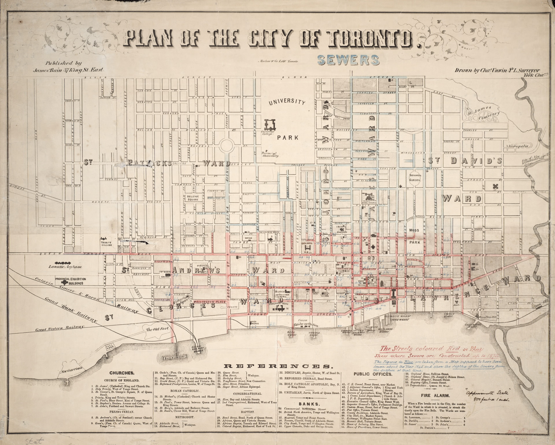 Map of Toronto in 1858. Archives of Ontario/Archives de l'Ontario, C295-1-163-0-27. This image is available from the Toronto Public Library under the reference number Ms1921.9This tag does not indicate the copyright status of the attached work. A normal copyright tag is still required. See Commons:Licensing for more information. English | français | +/−